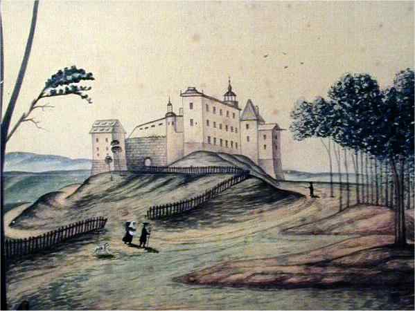 CASTLE NEW SVETLOV